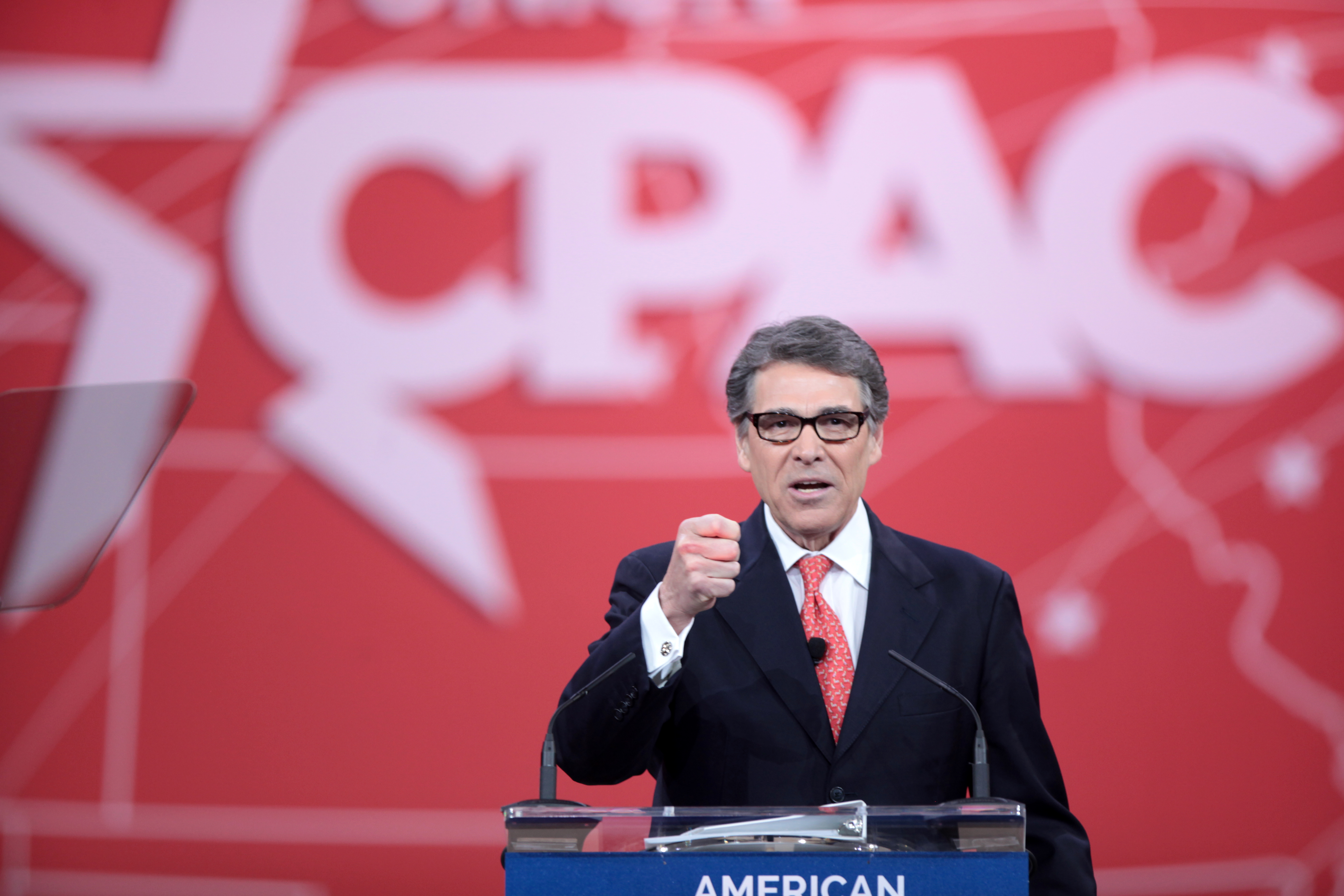 Rick Perry speaking at CPAC 2015 in Washington, DC.